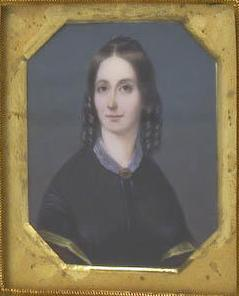 Date Circa 1837 Currently on Display No Maker Unknown Object No 82.1.2